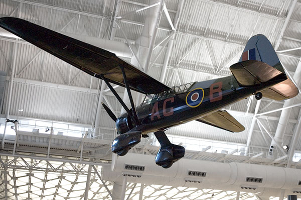 Westland Lysander IIIA at National Air and Space Museum, Steven F. Udvar-Hazy Center